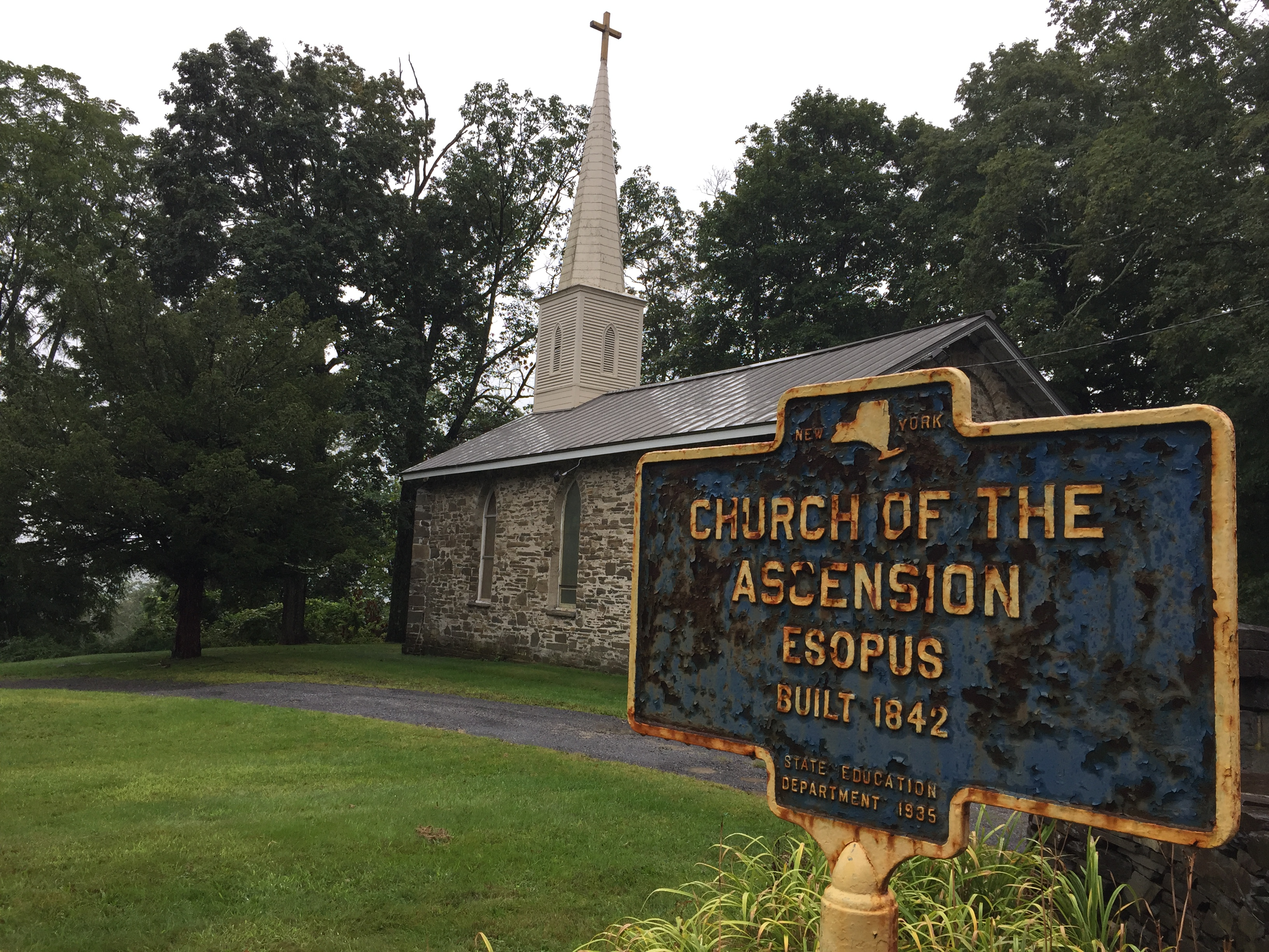 New York State historical marker for the Church of the Ascension, Esopus, NY